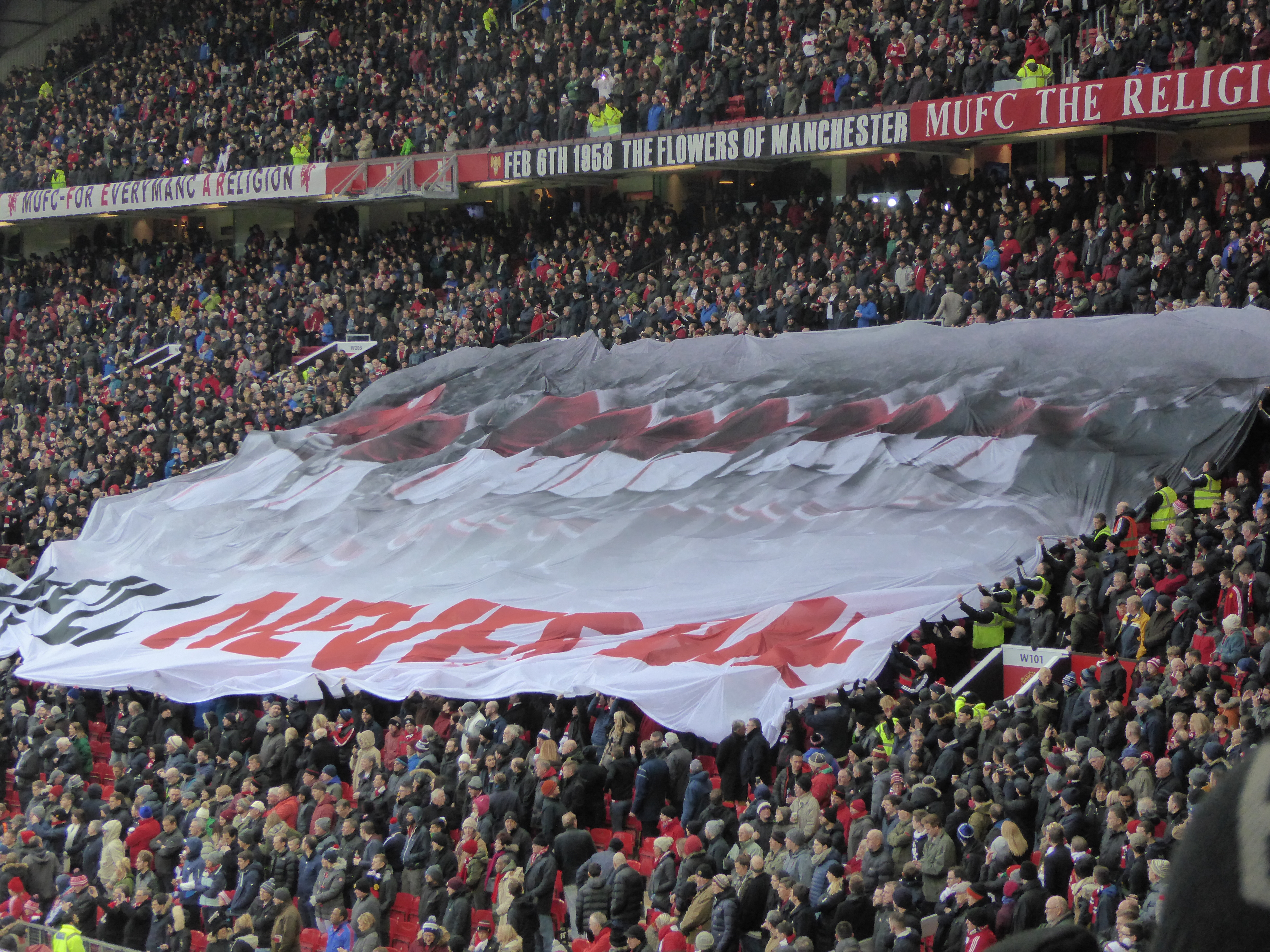 Manchester United v Watford (2-0), Premier League, Old Trafford, Manchester, Greater Manchester, England, 11 February 2017